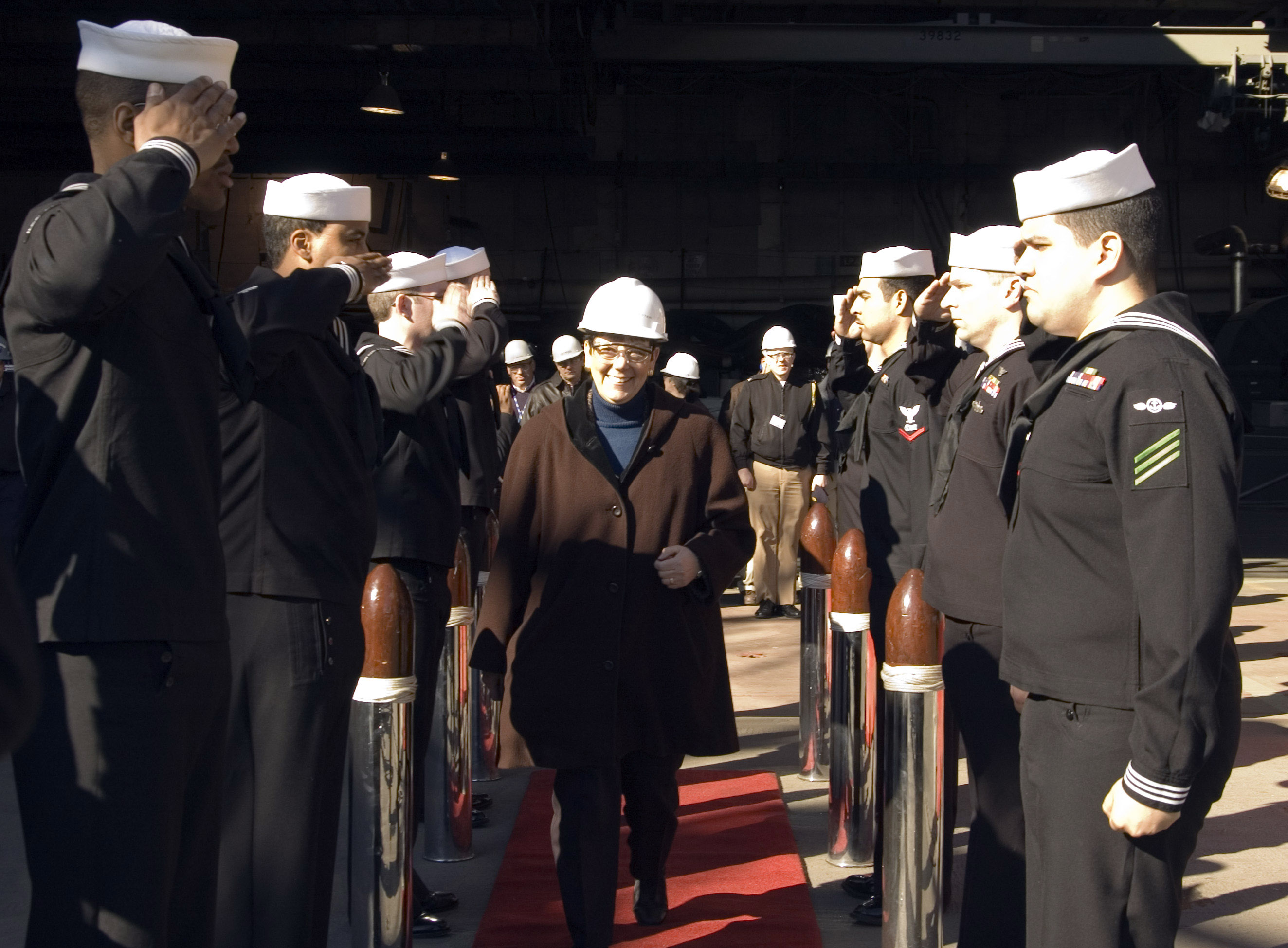 Newport News, Va. (Jan. 26, 2007) – Sailors aboard USS Carl Vinson (CVN 70) render honors to Assistant Secretary of the Navy for Research, Development, and Acquisition Dr. Delores M. Etter following her visit. Carl Vinson is currently undergoing its scheduled refueling complex overhaul (RCOH) at Northrop Grumman Newport News shipyard. The RCOH is an extensive yard period that all Nimitz-class aircraft carriers go through near the mid-point of their 50-year life cycle. U.S. Navy photo by Mass Communication Specialist 3rd Class Myriam M. Padilla (RELEASED)